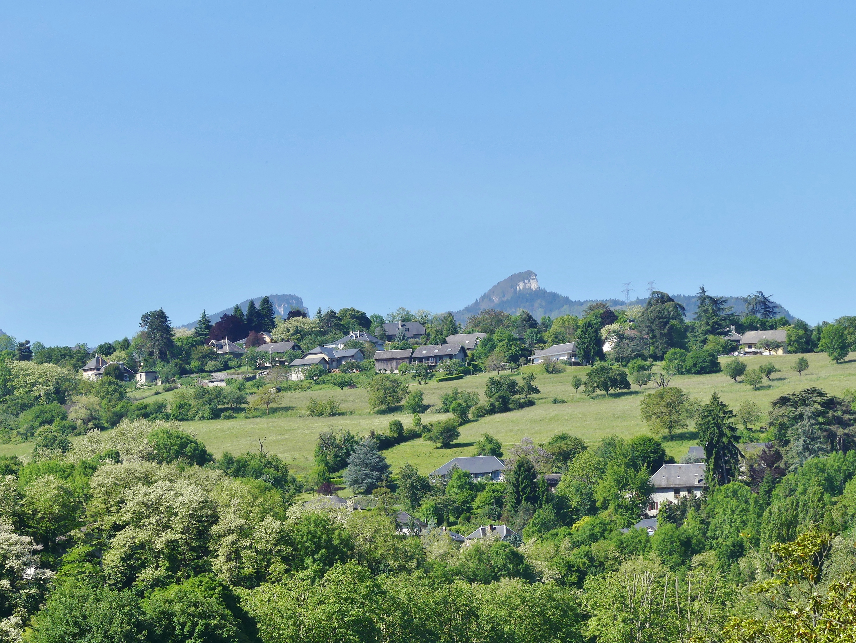 Landscape of Les Charmettes hamlet and dale, on the heights of Chambéry, in Savoie, France.